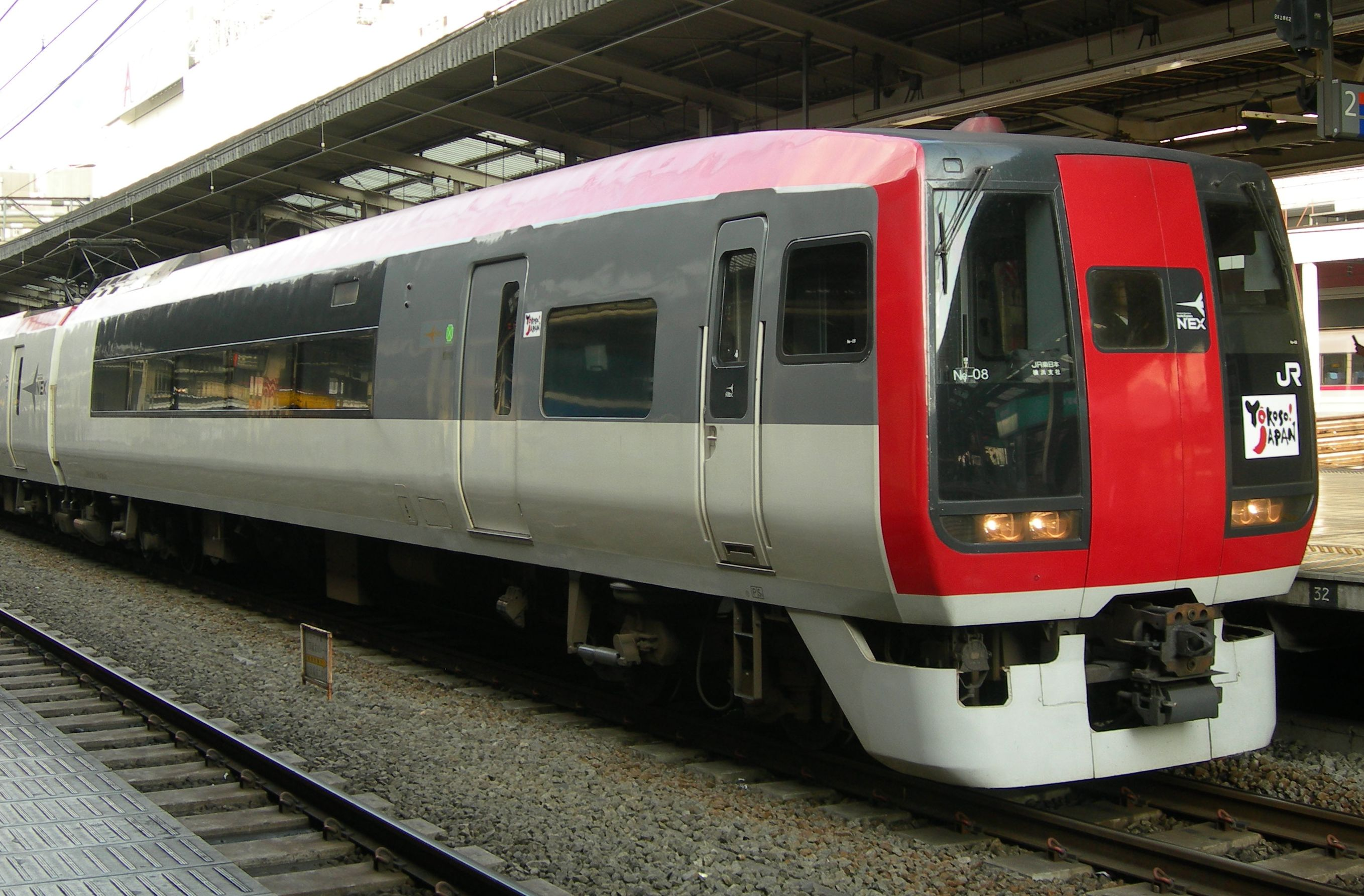 JR East "Narita Express" 253 series EMU car KuRo 253-8 at Ikebukuro Station